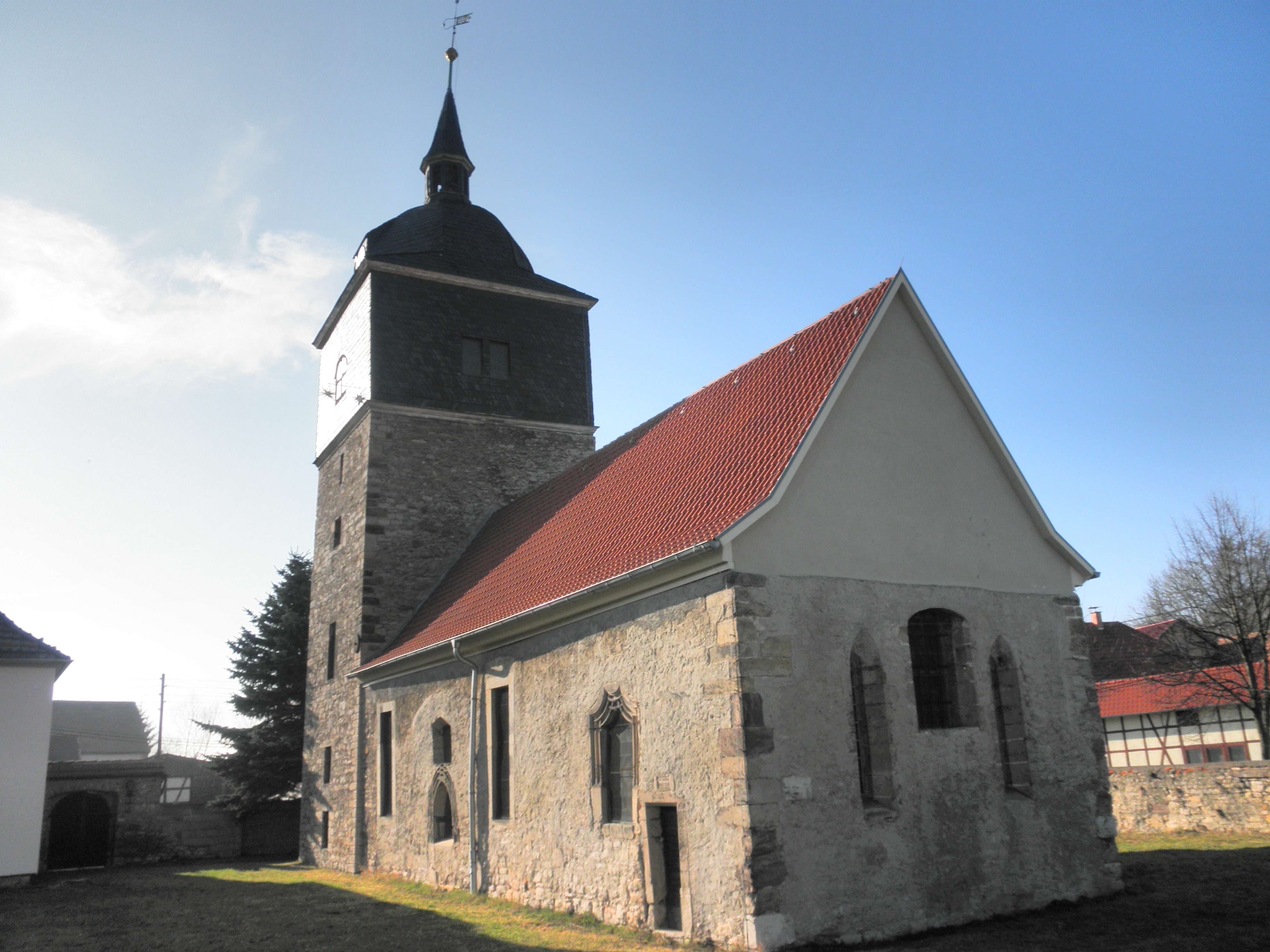 Church in Witzleben (Thüringen) in Thuringia